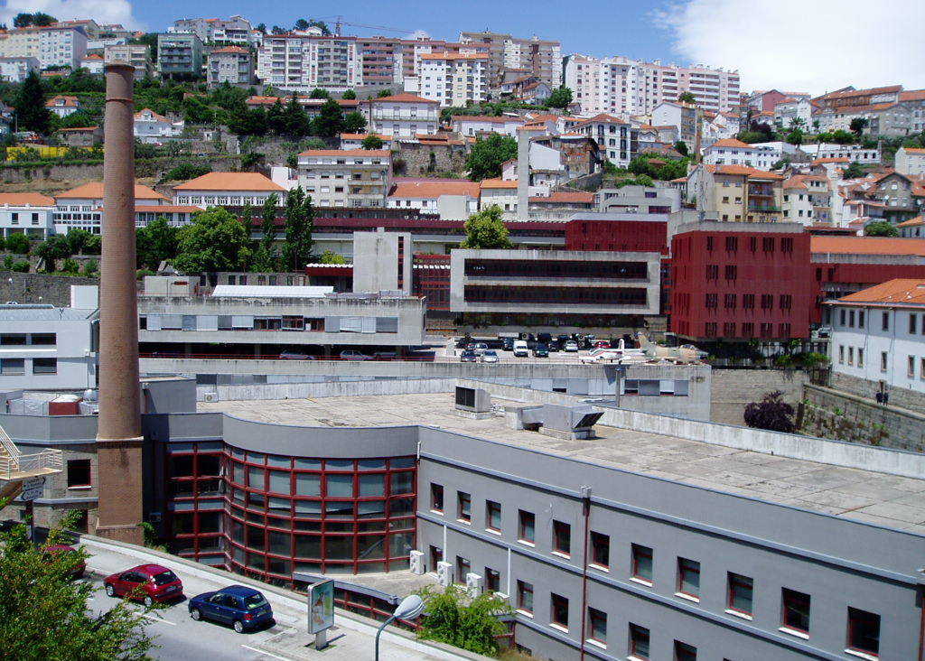 The main building of University of Beira Interior.